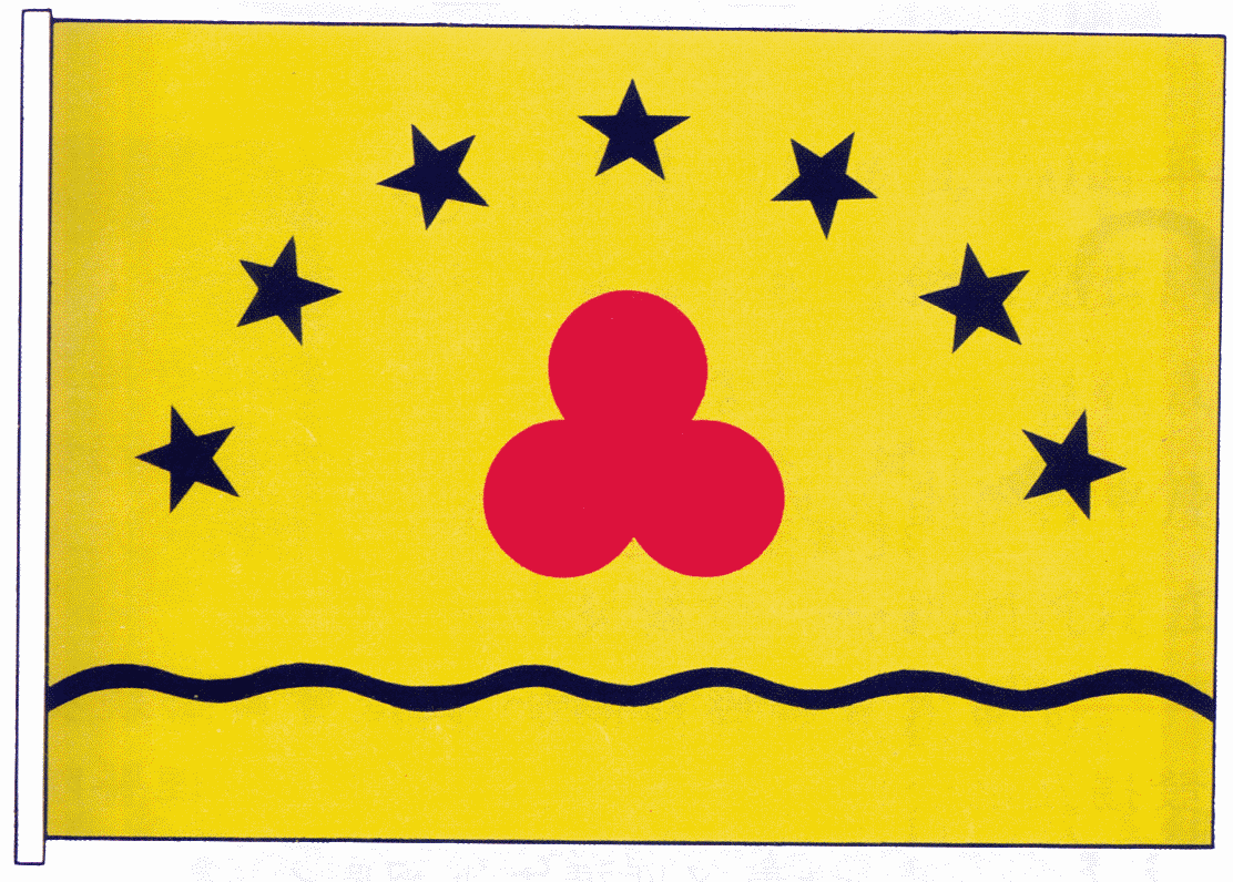 Flag, Kwong Siew Association of Thailand 中文（香港）: 泰國廣肇會館 會旗